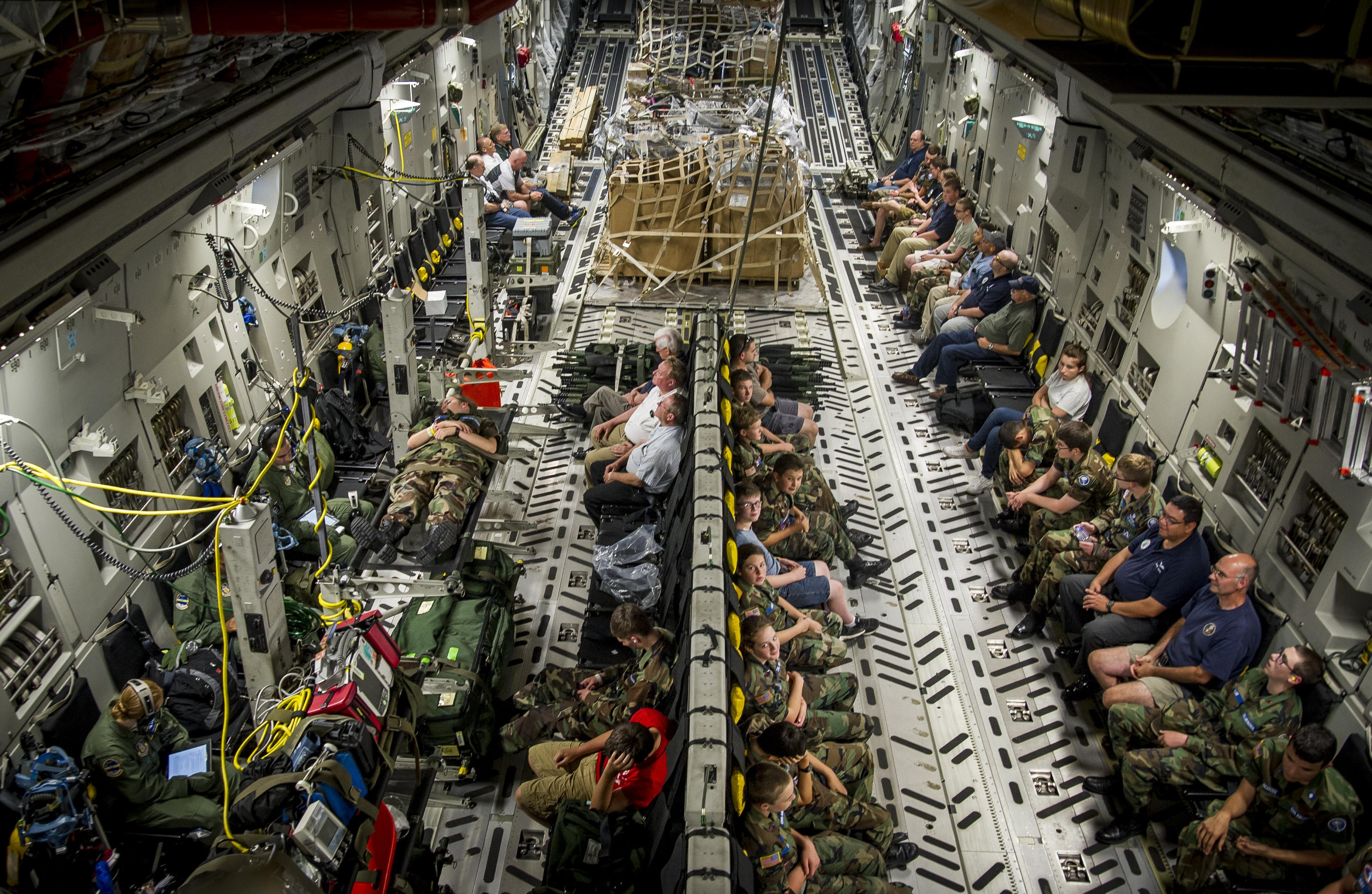 Members of the 315th Aeromedical Evacuation Squadron, the Civil Patrol return from a response exercise, Winds of Fury at Fort Jackson, S.C., May 13, 2015, to Joint Base Charleston, S.C. The exercise was to efficiently receive, regulate, transport and track patients to and from Natural Disaster Medical System hospitals within a 50 mile radius of Columbia Airport by ambulance and other transport vehicles. (U.S. Air Force photo by Senior Airman Tom Brading)